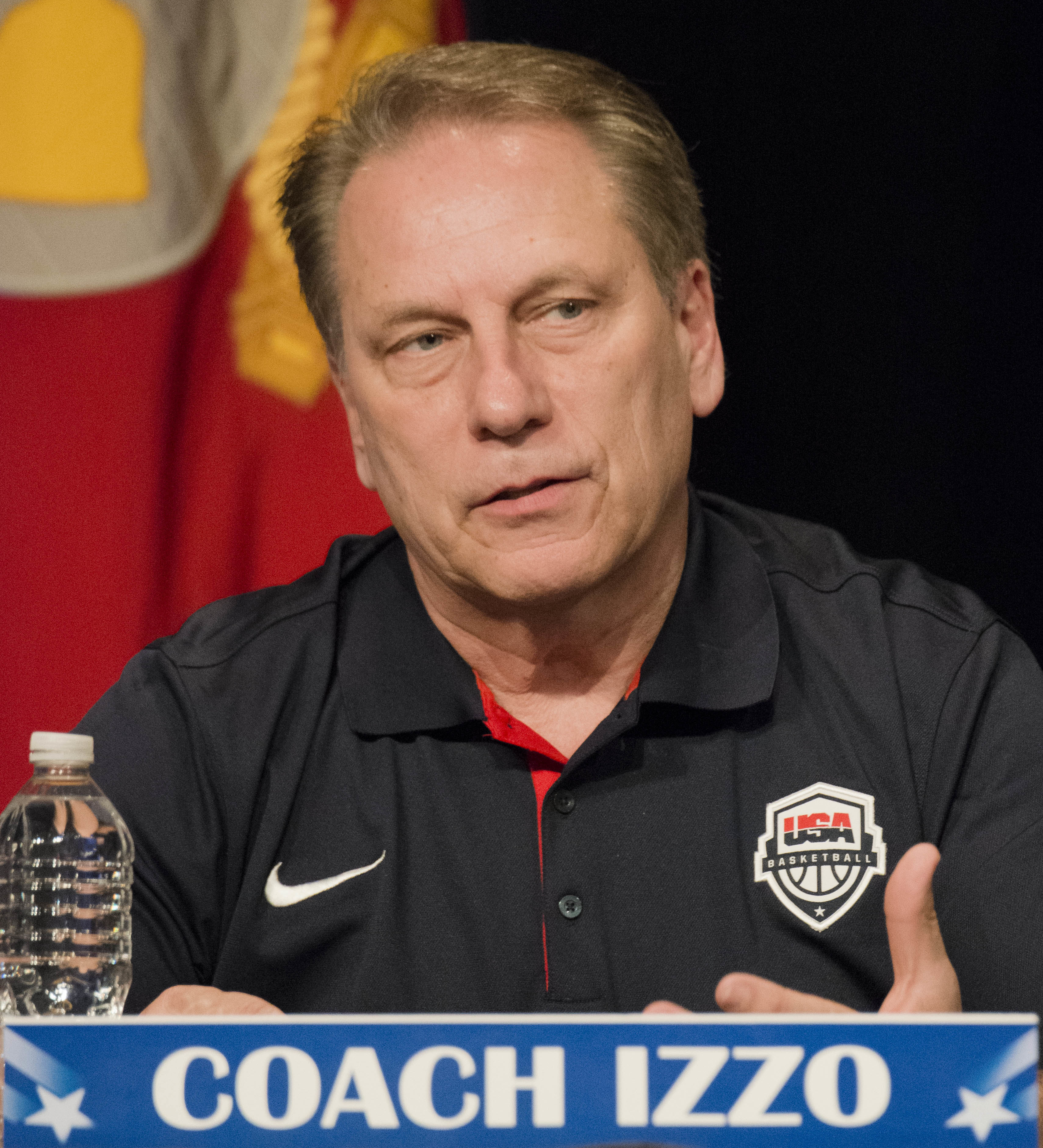 Tom Izzo speaking at the Pentagon